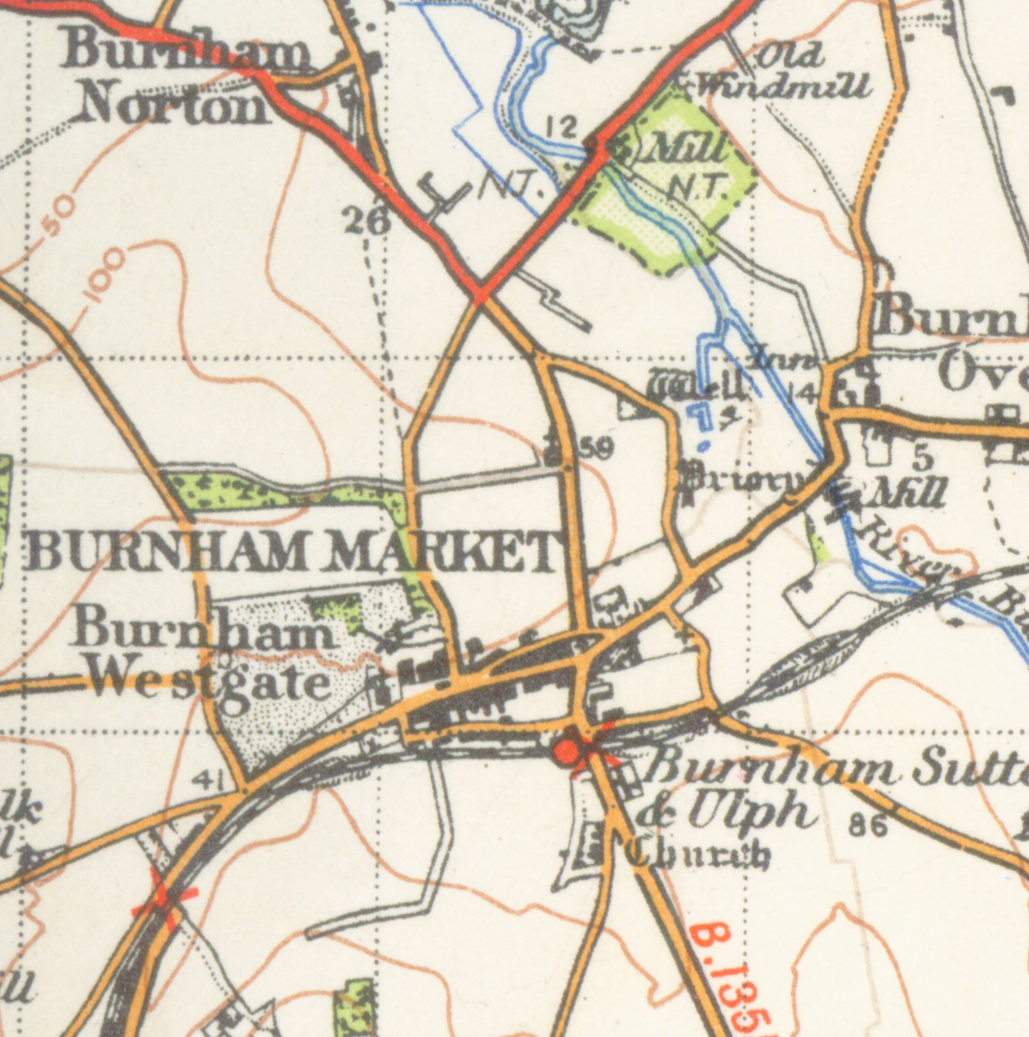 Map of Burnham market from 1946. Scale 1 inch to the mile 600DPI Sheet 125